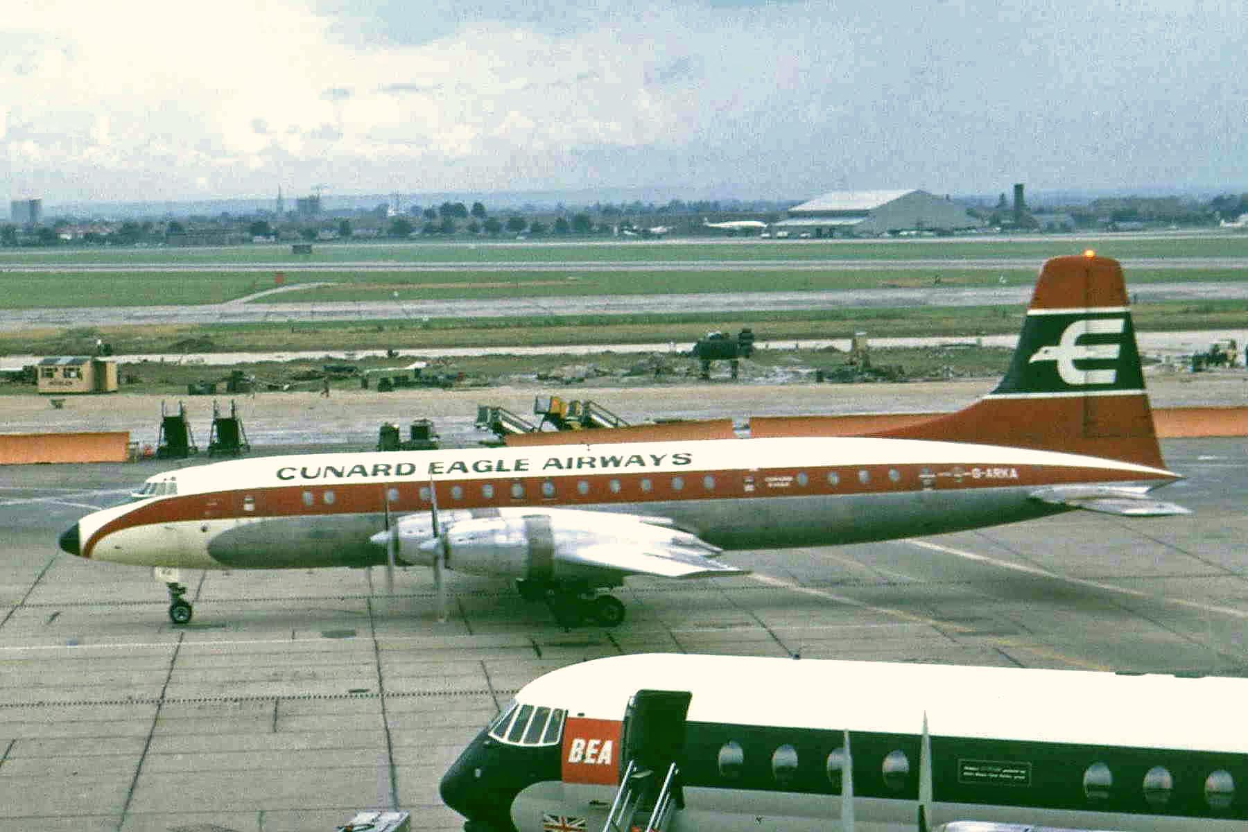 G-ARKA seen at London-Heathrow (LHR) in 1963 before Cunard Eagle became British Eagle. I prefer the wider cheat-line and the way it curves under the nose.